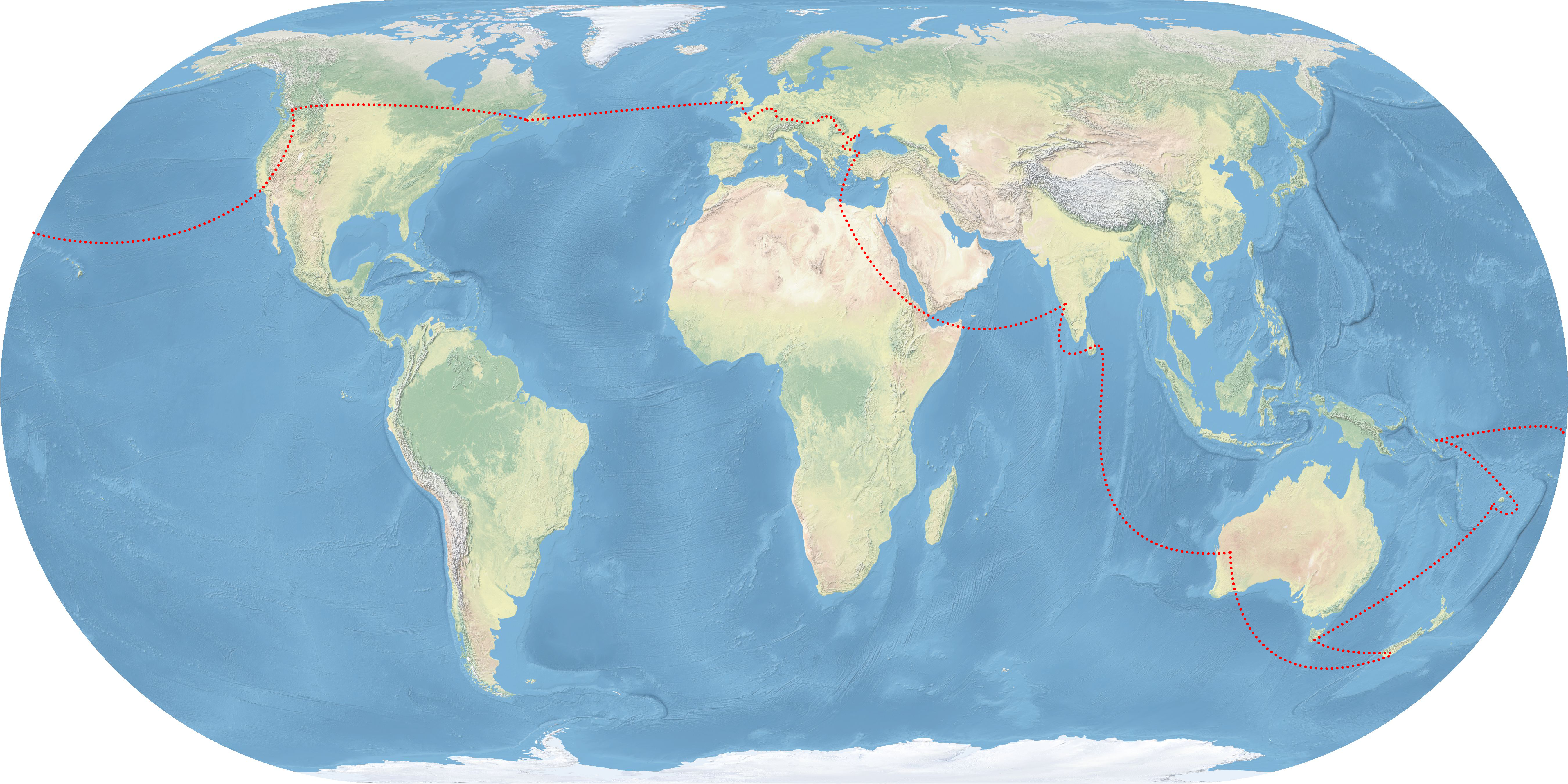 Anka Lambreva's first voyage, the first Bulgarian woman to circumnavigated the globe.